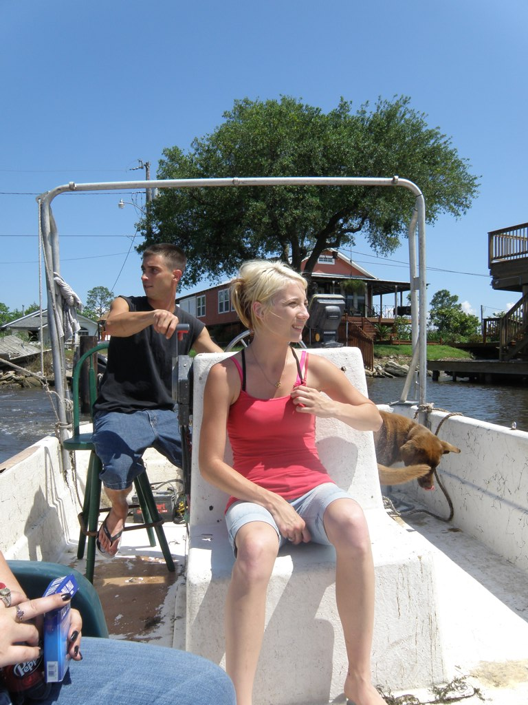 Tess Boudreaux, Shrimper. Aboard shrimping boat at Lafitte, Louisiana.